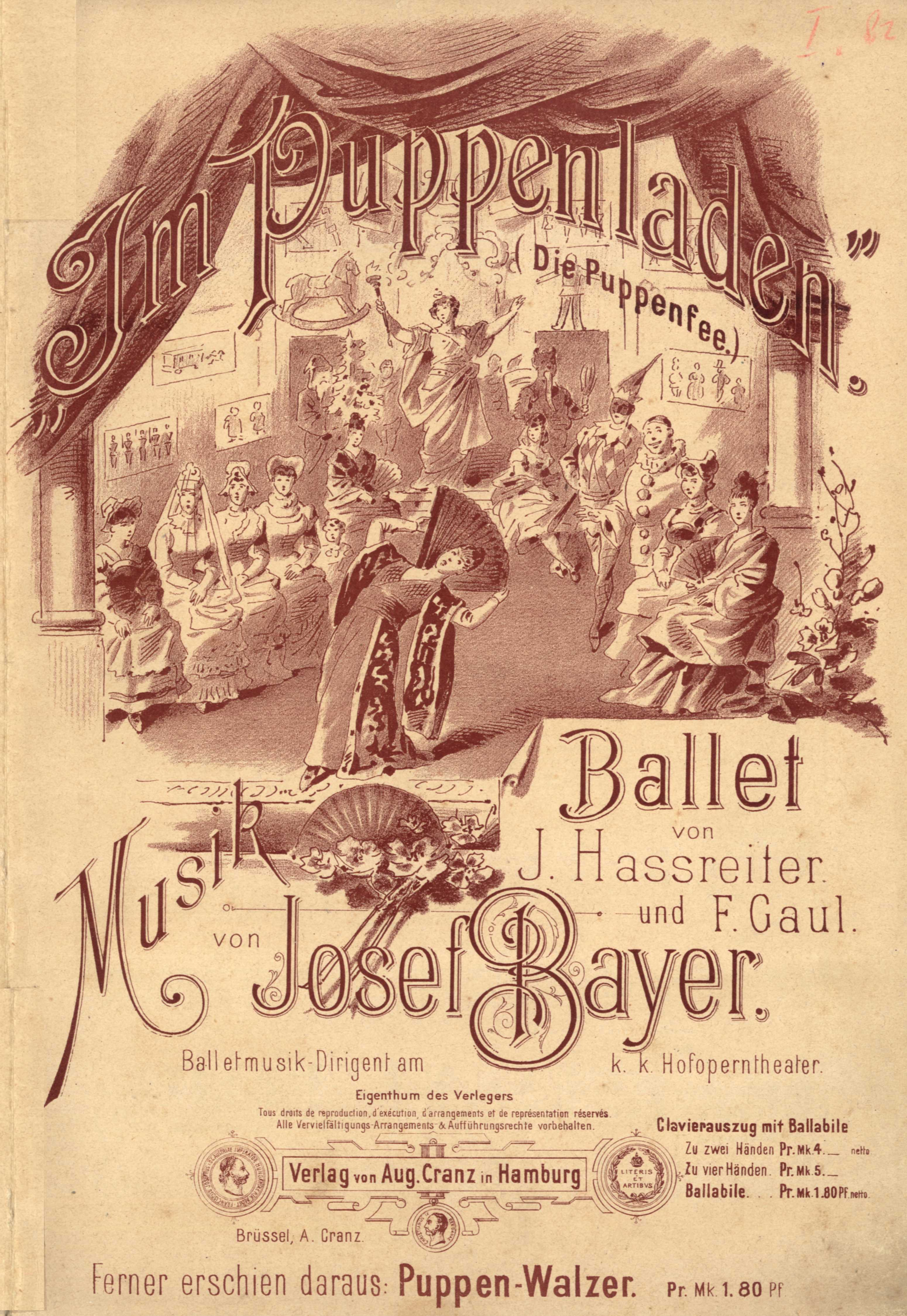 Josef Bayer (1852-1913) The Fairy Doll, Cover of the piano score; Die Puppenfee. Titelblatt des Klavierauszuges